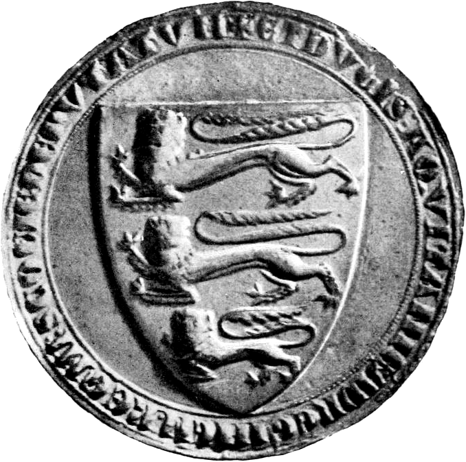 Seal of Edward I, King of England (died 1307).